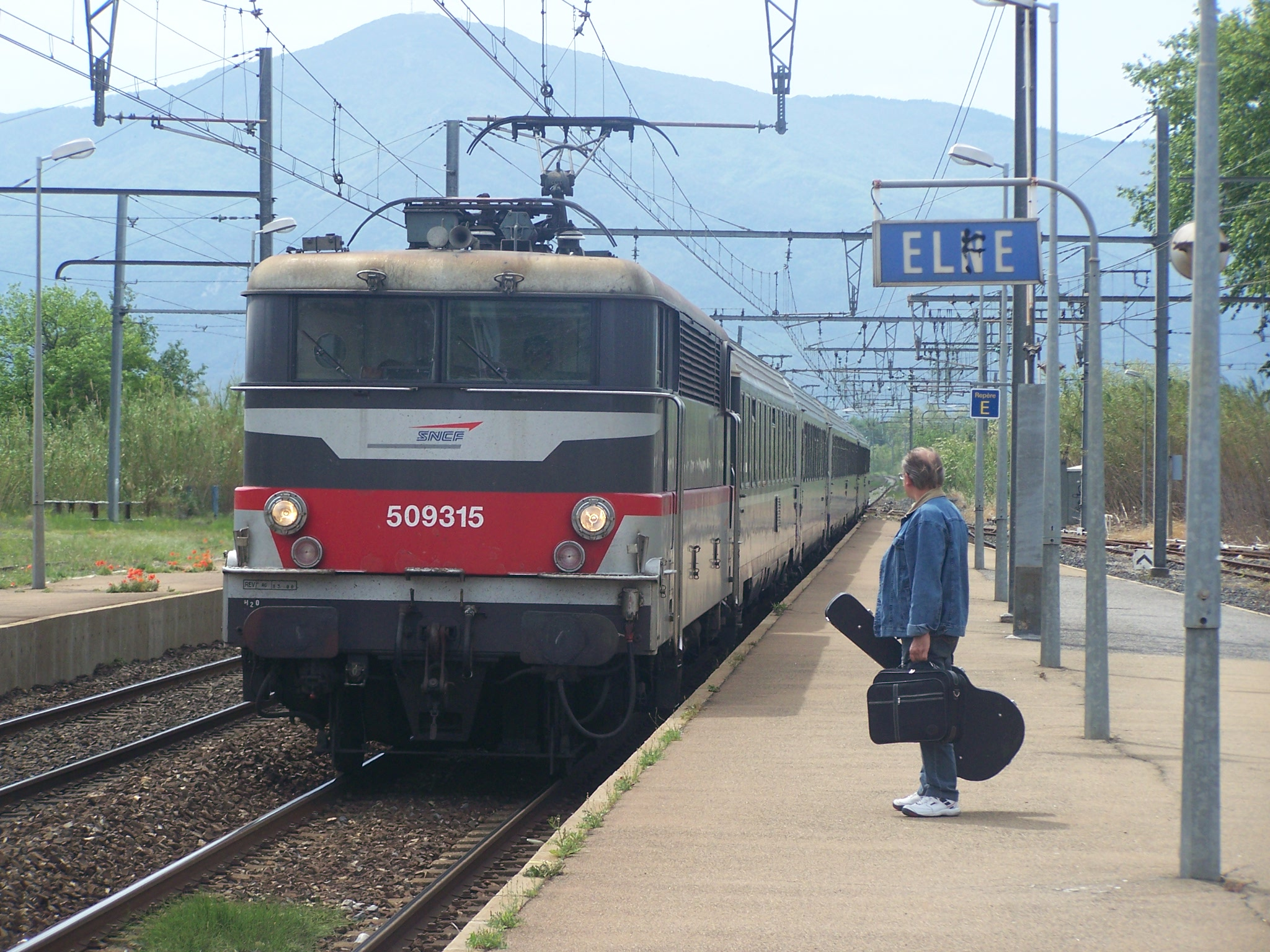 French regional train coming from Cerbère at the Spanish border and moving towards Narbonne is stopping at Elne station, in Pyrénées-Orientales.